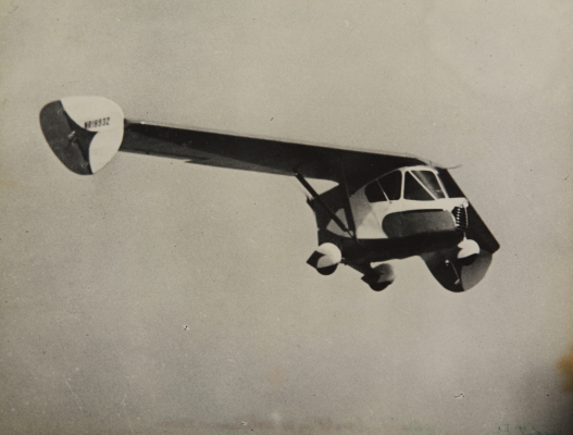 Catalog #: 00073738 Manufacturer: Waterman Official Nickname: Aerobile